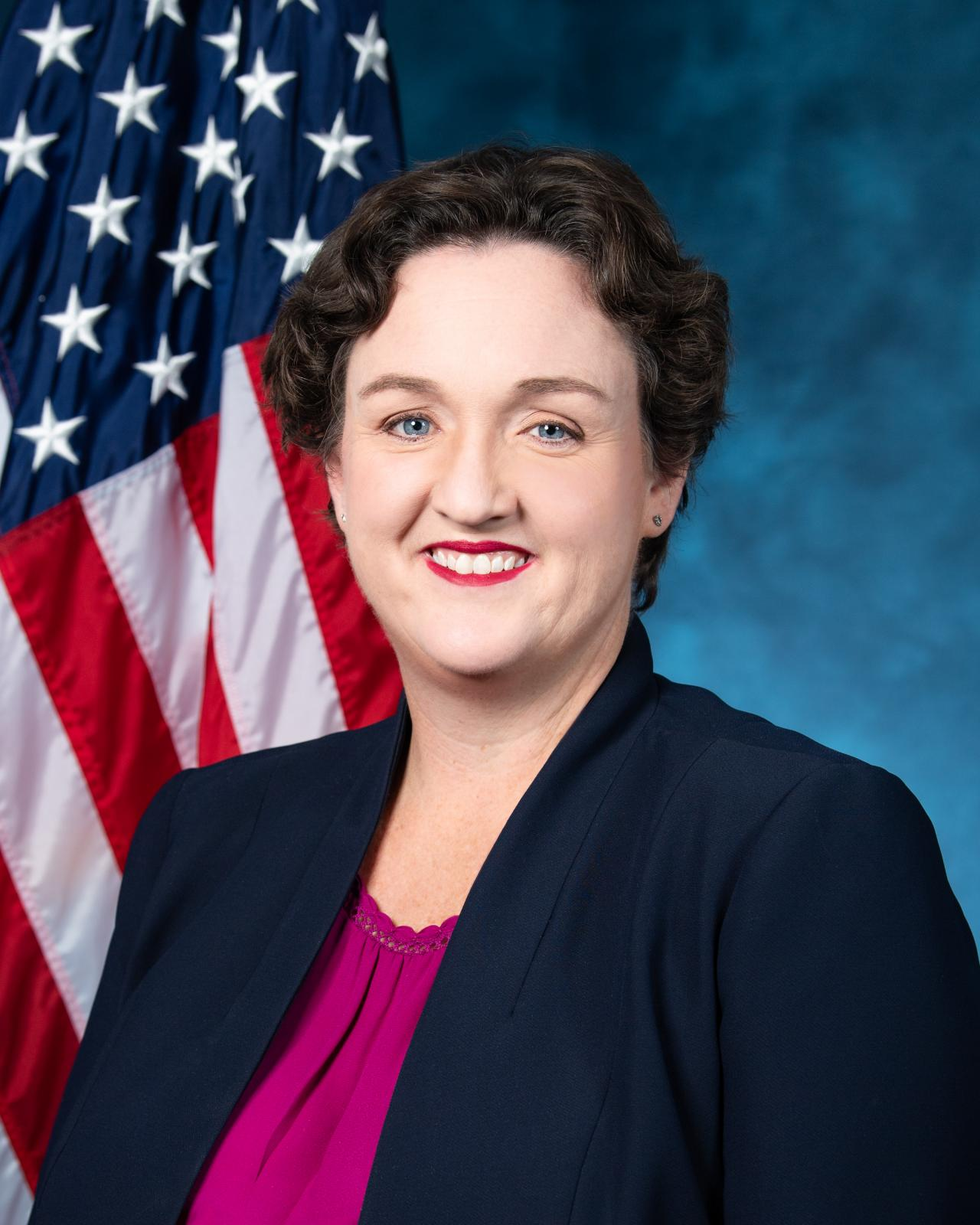 The official headshot of Rep. Katie Porter (D-CA)